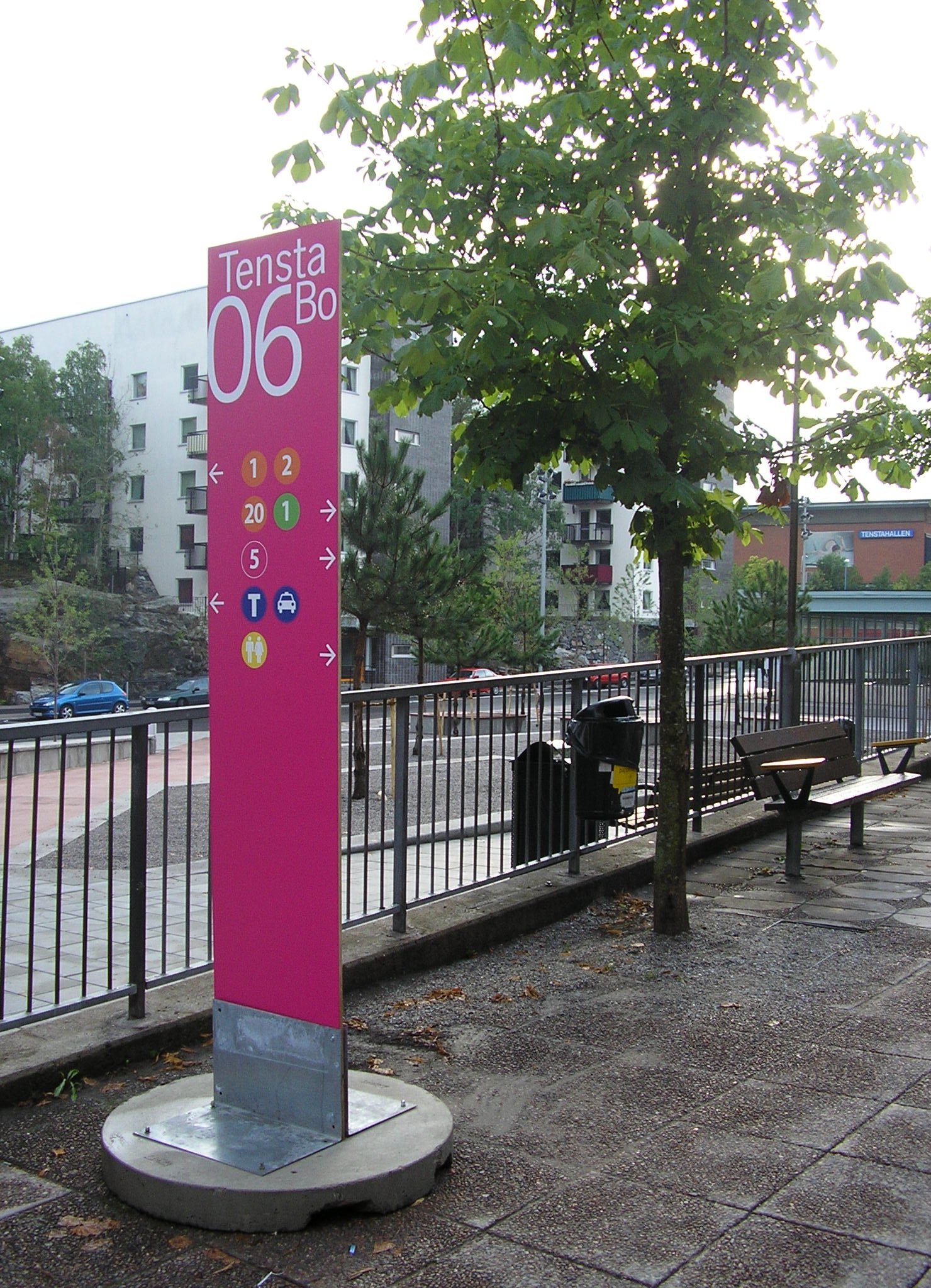 View from Tensta during Tensta Bo 06.